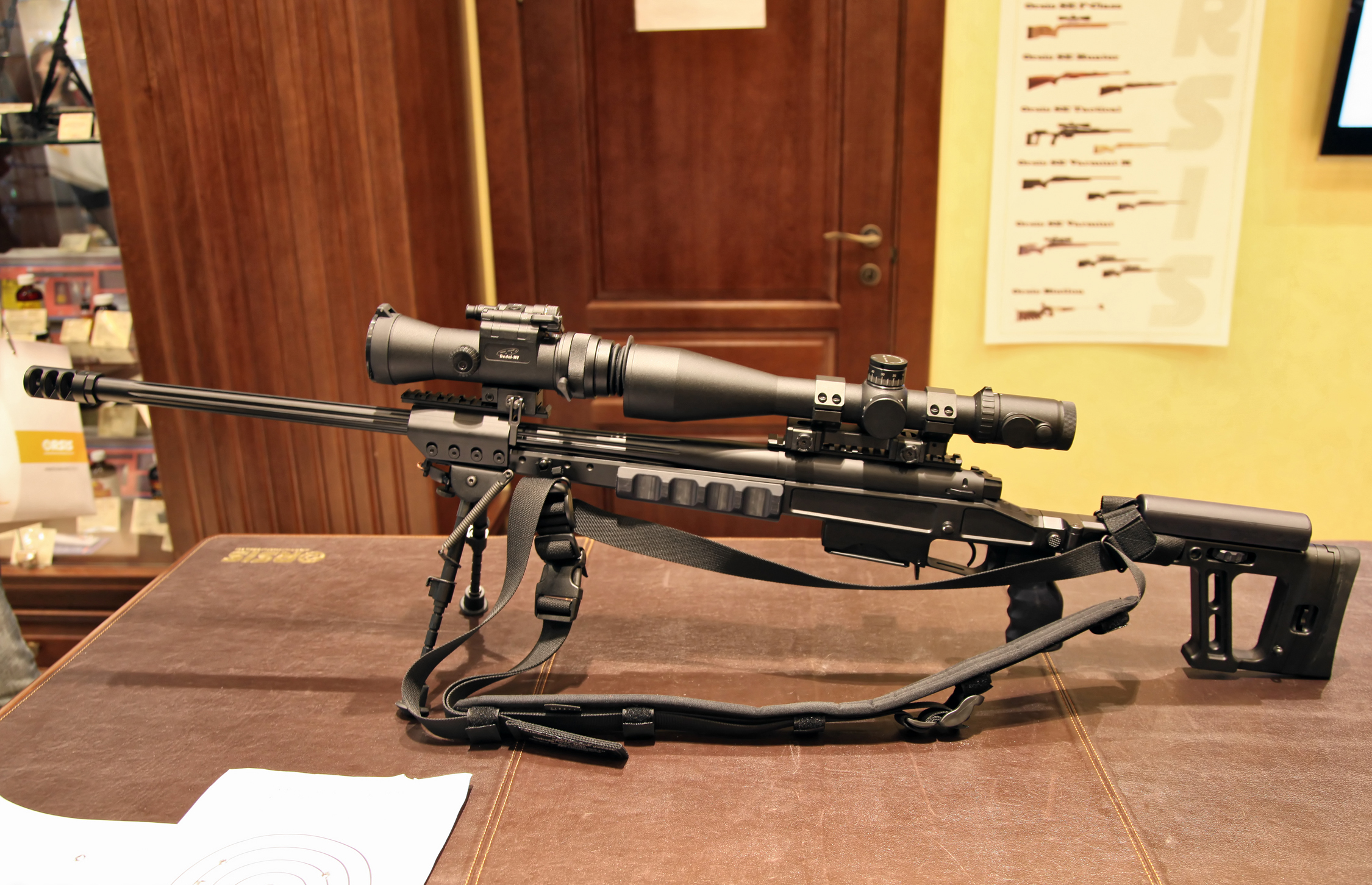 Sniper rifle ORSIS T-5000 .338LMTiếng Việt: Súng bắn tỉa ORSIS T-5000 .338LM